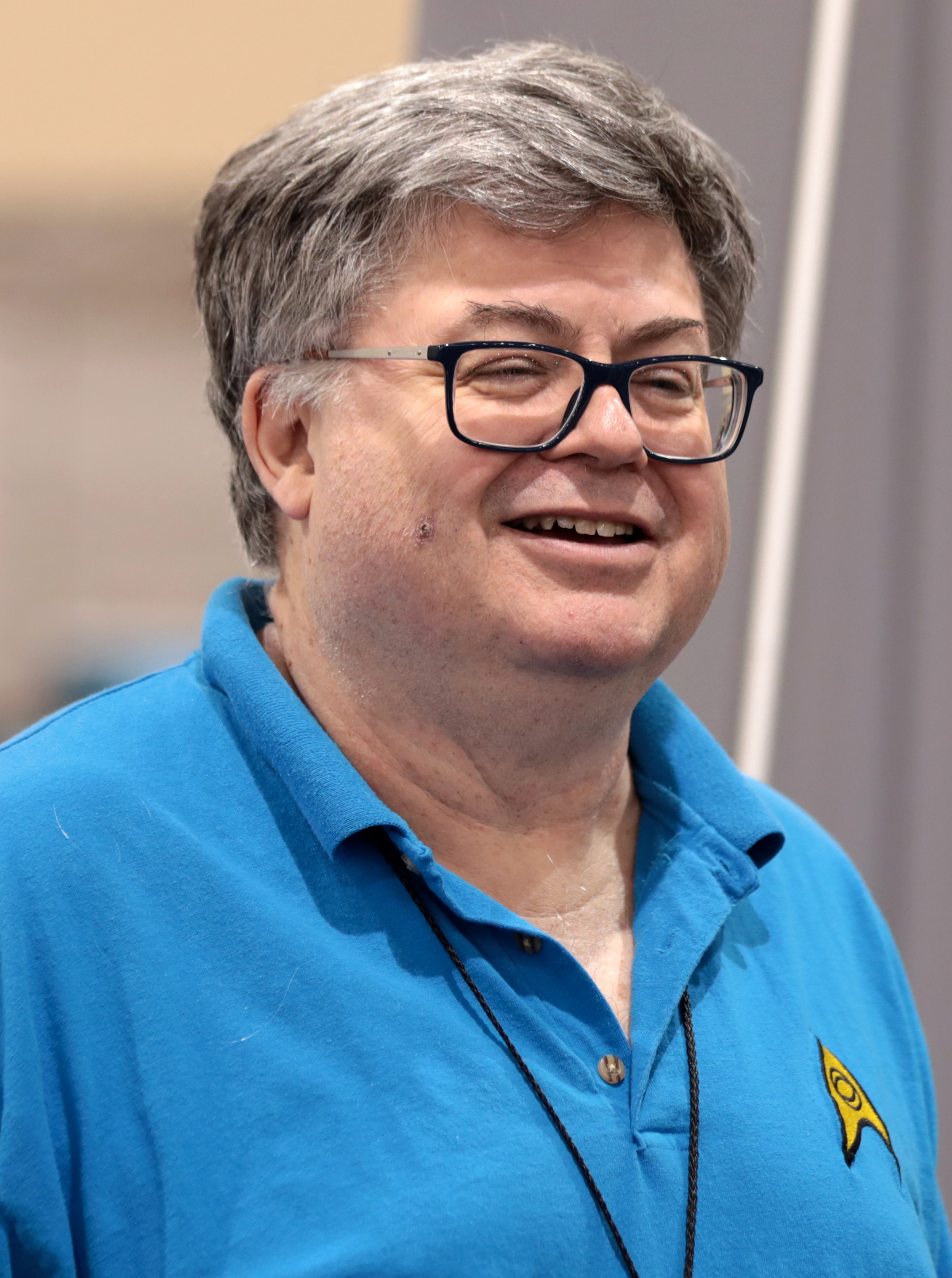 Gordon Purcell speaking at the 2019 Phoenix Fan Fusion in Phoenix, Arizona.